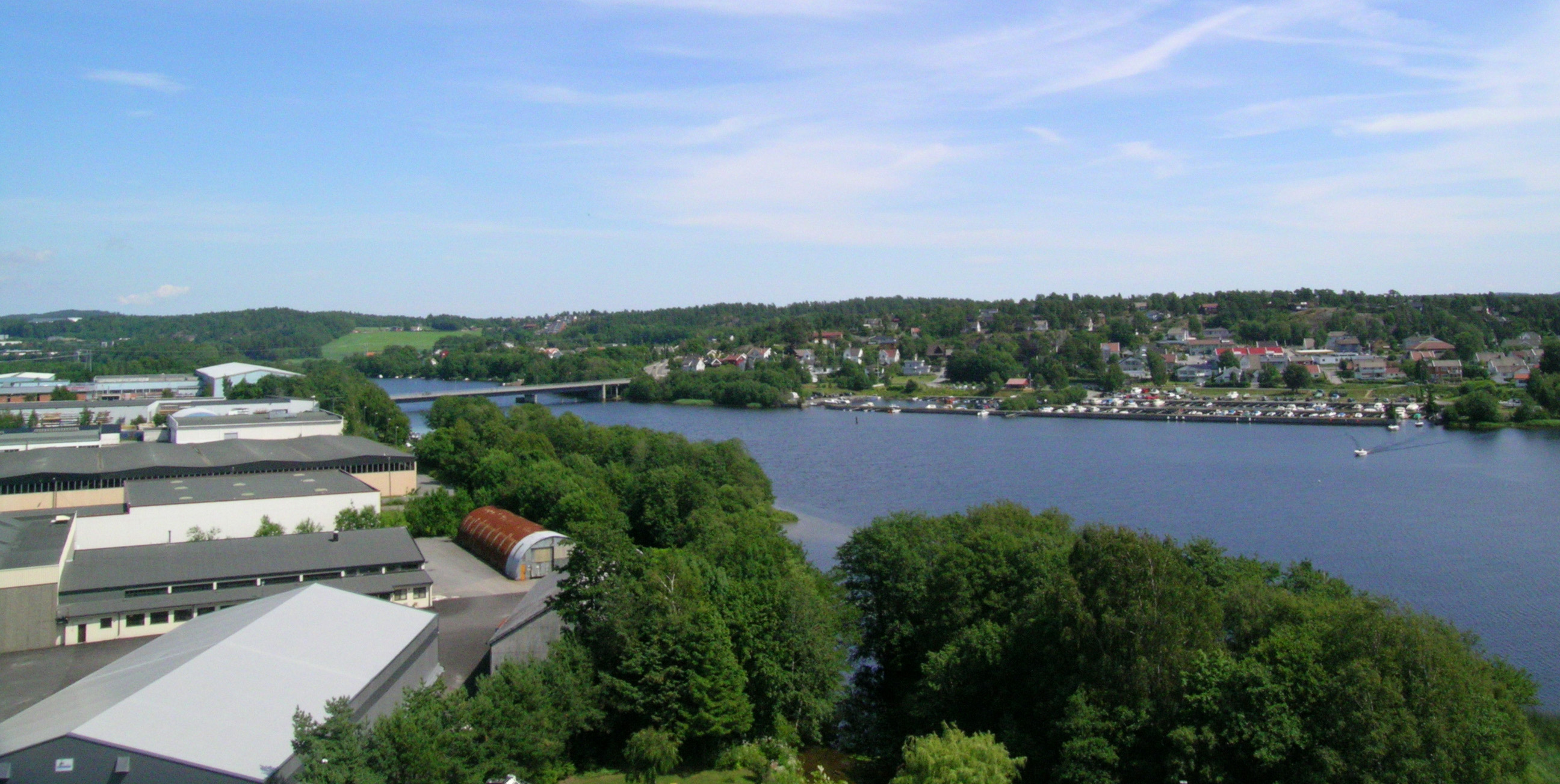 Numedalslaagen through Larvik